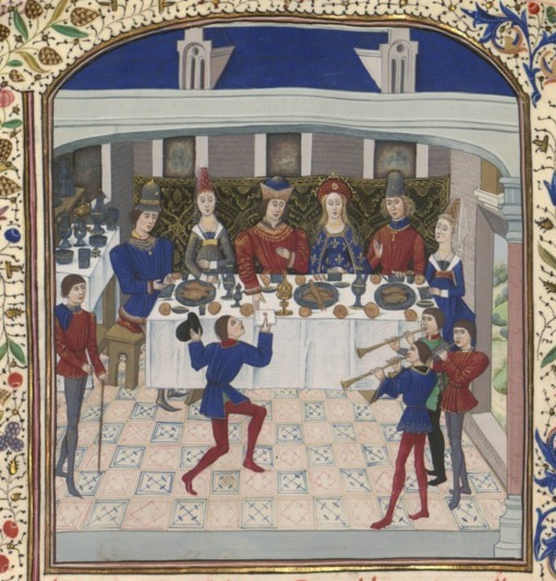 William III of Holland